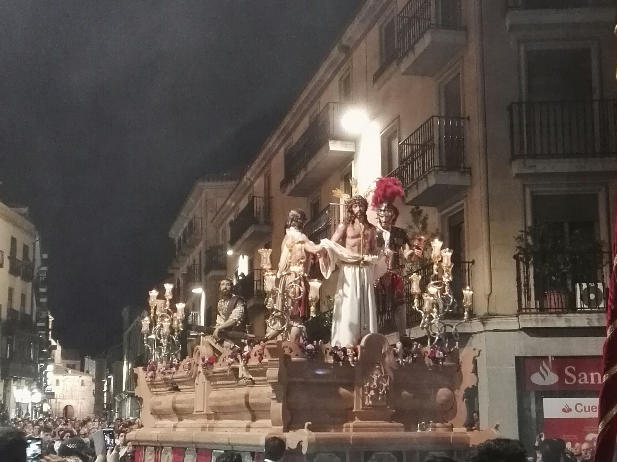 Float of the Disrobement of Christ, Salamanca (Spain). Statue of Christ: Francisco Romero Zafra (2012). Other statues: Manuel Madroñal Isorna (2015-2016).